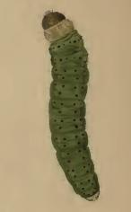 Stainton’s Natural History of the Tineina (1855–1873): Agonopterix putridella